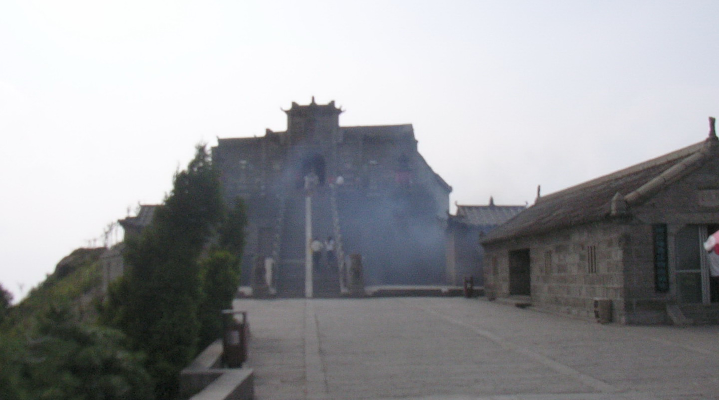 Thurong temple on the top of Hengshan (Hunan) mountain